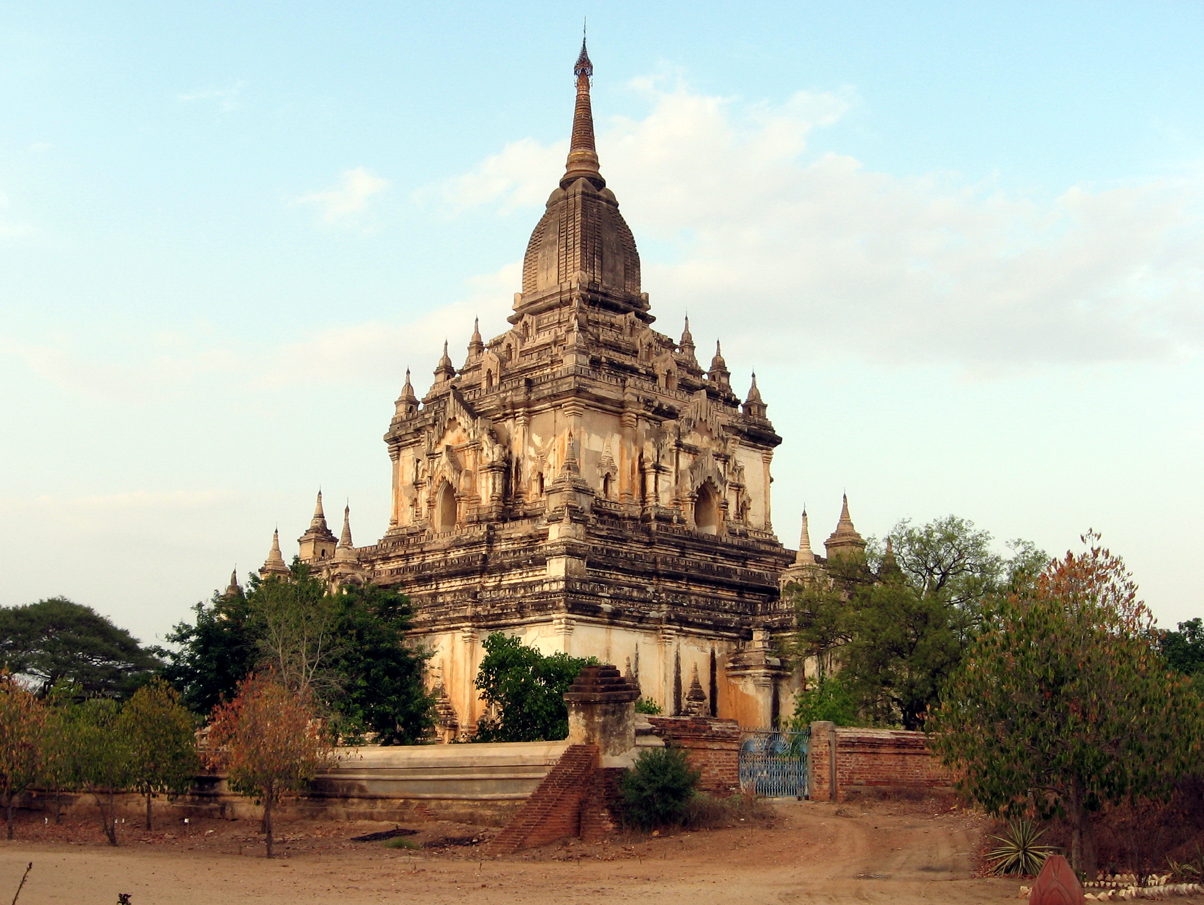 Sulamani Temple in Bagan, Myanmar - Burma